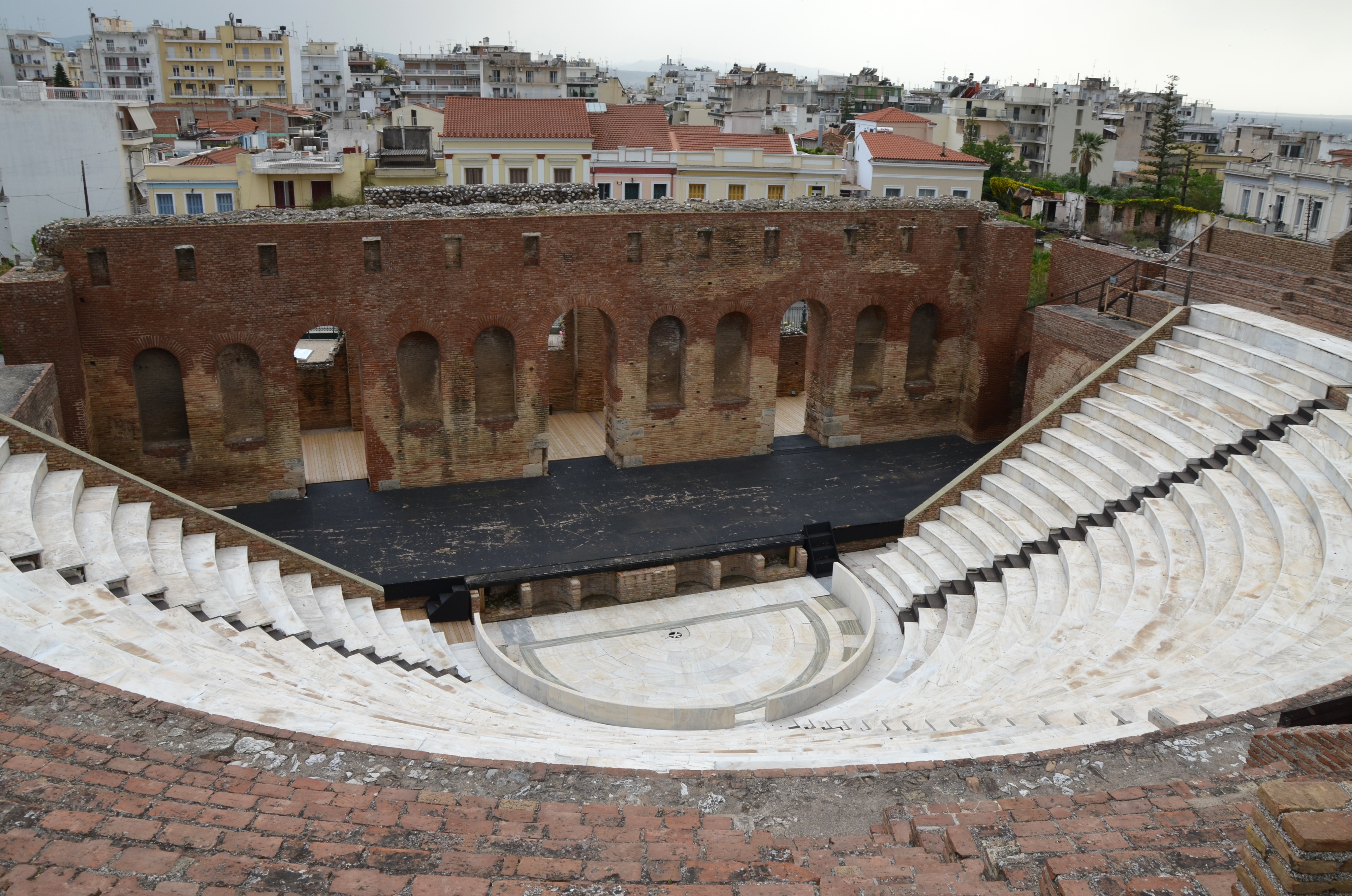 The Roman Odeon is located on the west side of Patra. It was built before the visit of Pausanias who rated it with the odeon of Herodes Atticus in Athens, as the most impressive of all the Odeons in Greece. It was rediscovered in 1889, and has been heavily restored since, including the new marble seating. The Odeon of Ancient Patrai was severely destroyed by successive invasions, wars and earthquakes. It was almost buried under the remains of other buildings and ground. The Odeon seats approximately 2300 spectators. After the establishment of the Patra International Festival held during the summer months, the Ancient Odeon constitutes the main venue, welcoming many top Greek and foreign performers.